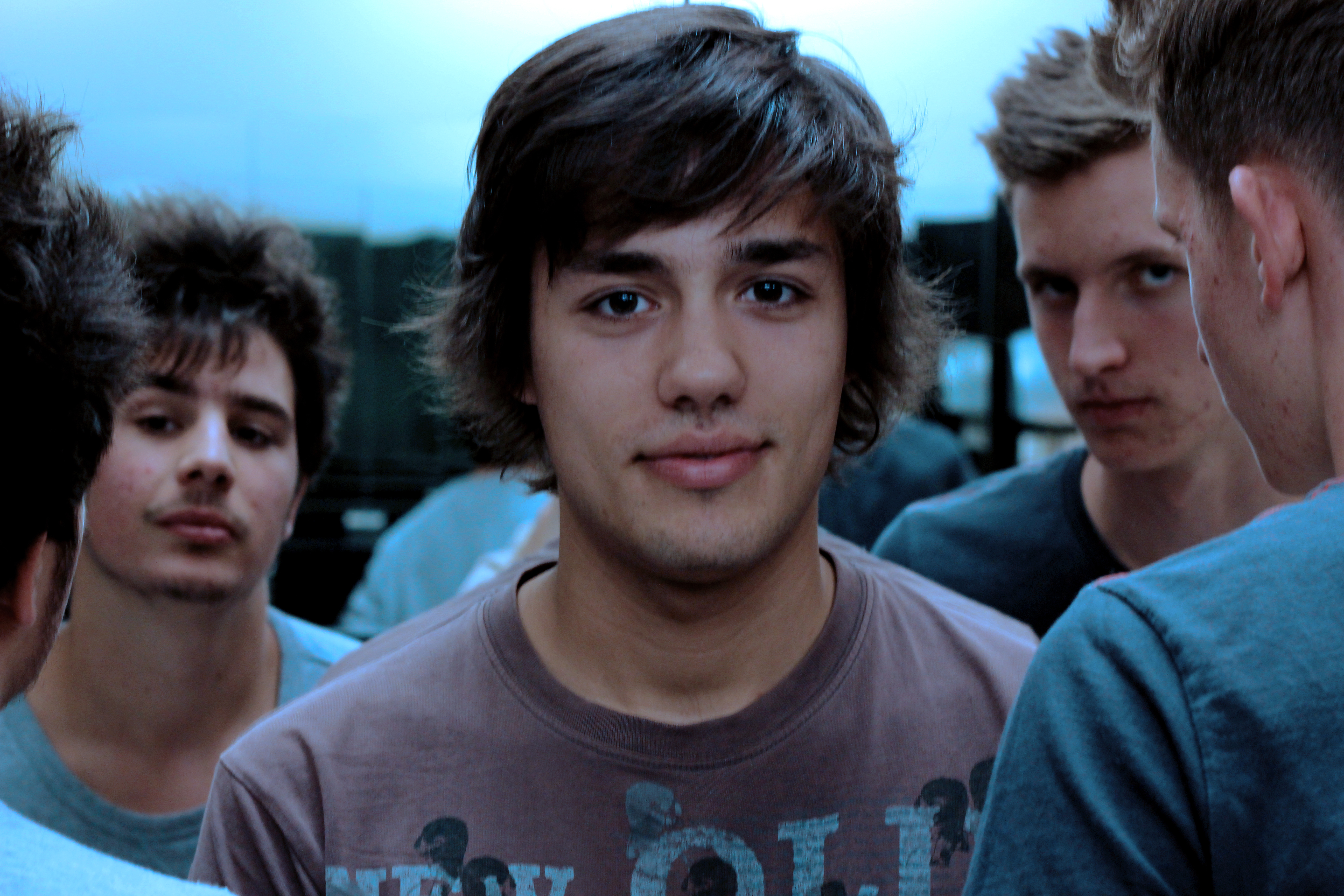 The Immigrants is an alternative rock band from Pécs, Hungary.